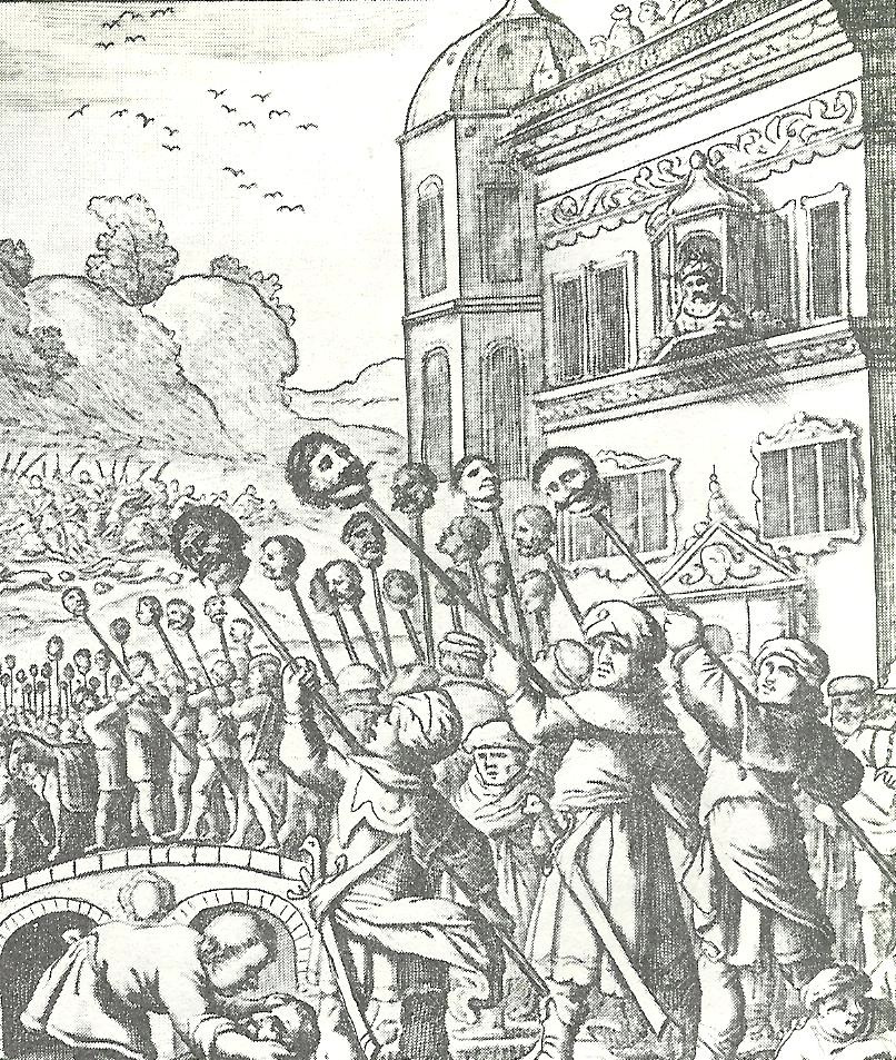 Page 180 From De volkomen beschryvinge der voortreffelijcke reyzen van de deurluchtige reysiger Pietro della Valle, edelman van Romen, in veel voorname gewesten des Werelts gedaan, vol.2. The capture of Tabriz from the Ottoman Turks by the Safavid army of Shah Abbas I took place on October 21, 1603, after twenty days fighting during the Ottoman–Safavid War (1603–1618). Local citizens welcomed the Safavid army as liberators and took harsh reprisals against the defeated Ottoman Turks who had been occupying their city. Many unfortunate Turks fell into the hands of Tabriz’s citizens and were decapitated.